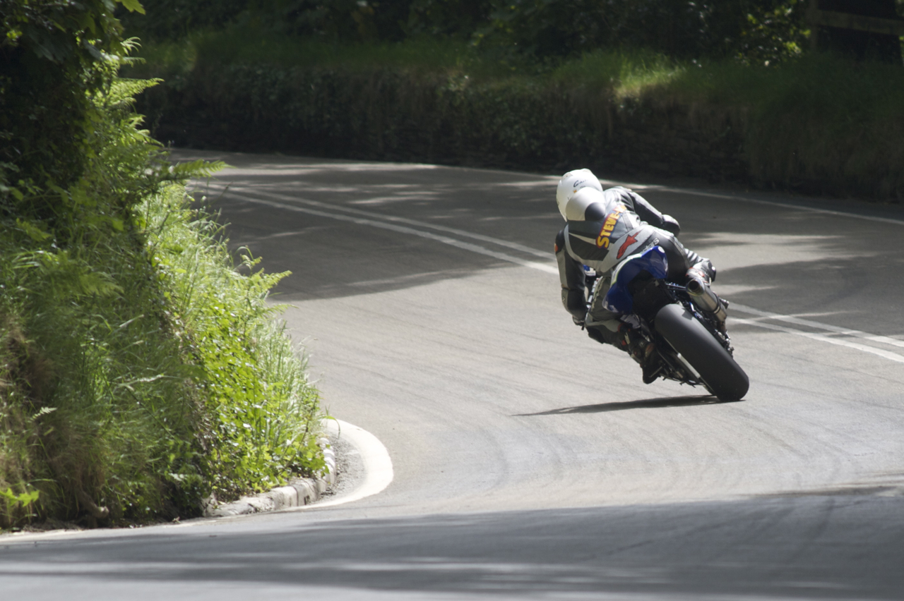 TT rider after negotiating a right-junction into the 'old' part of the TT course for The Nook (only used for competition, not 'normal' traffic), a wooded area, followed by a slight left then a short straight to Governor's Bridge area, an even-more wooded area with a heavy canopy